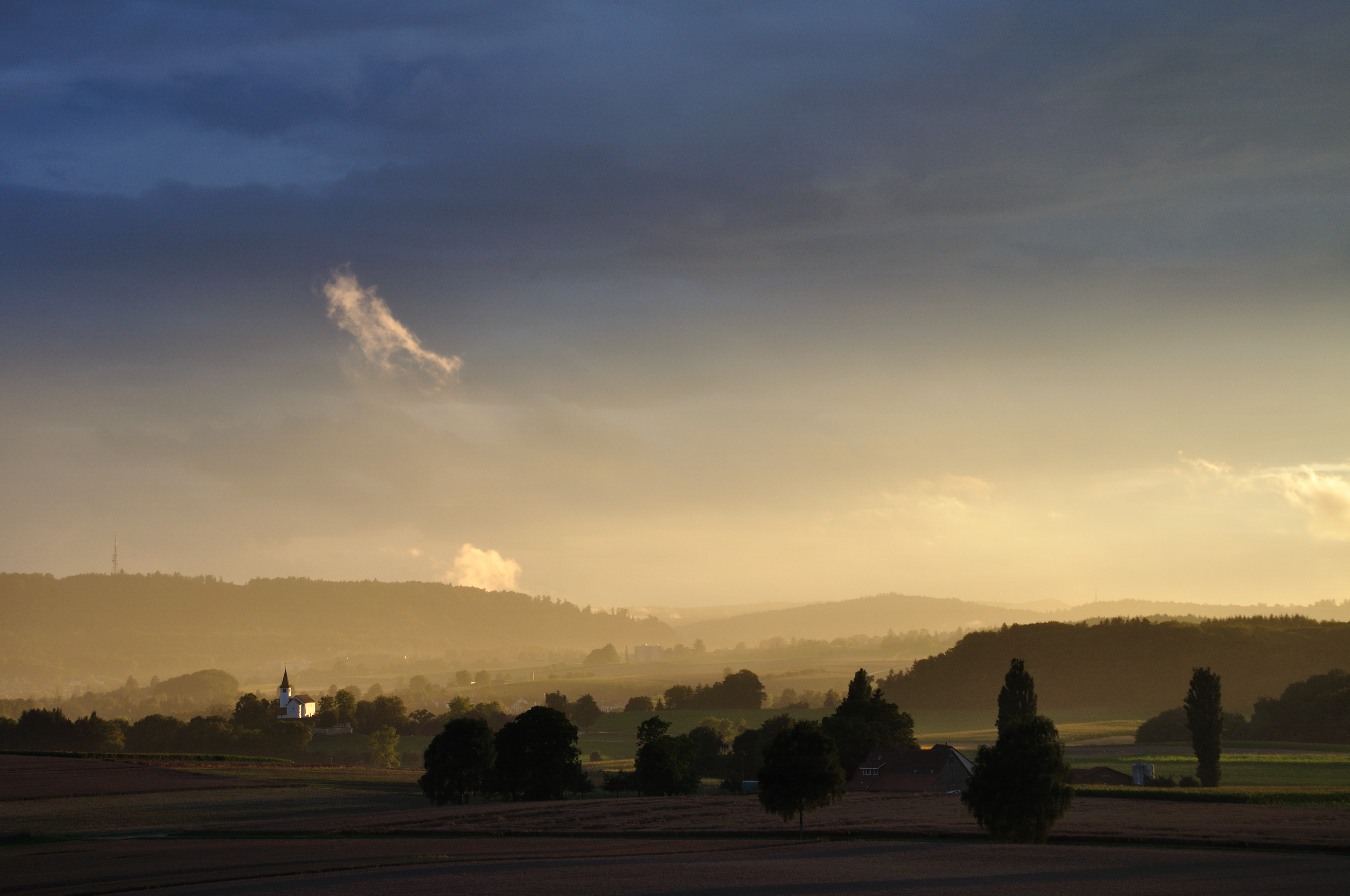 Switzerland, Canton of Schaffhausen, sunset after a pretty rainy day